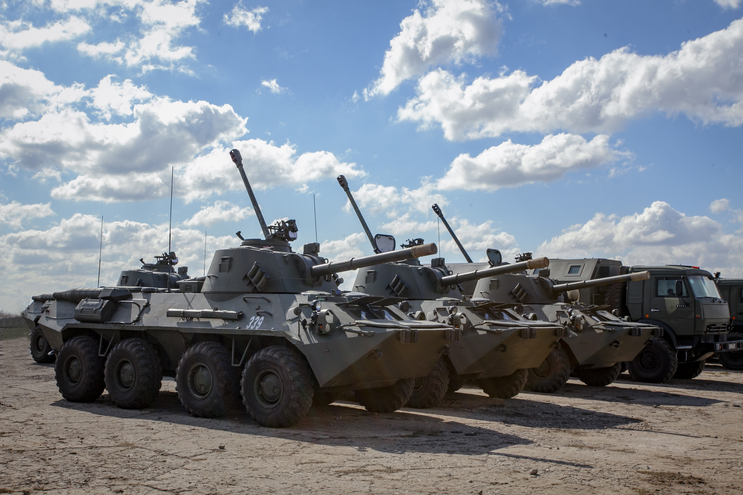 2S23 self-propelled mortar-howitzer.